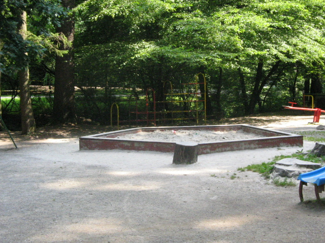 Sand box